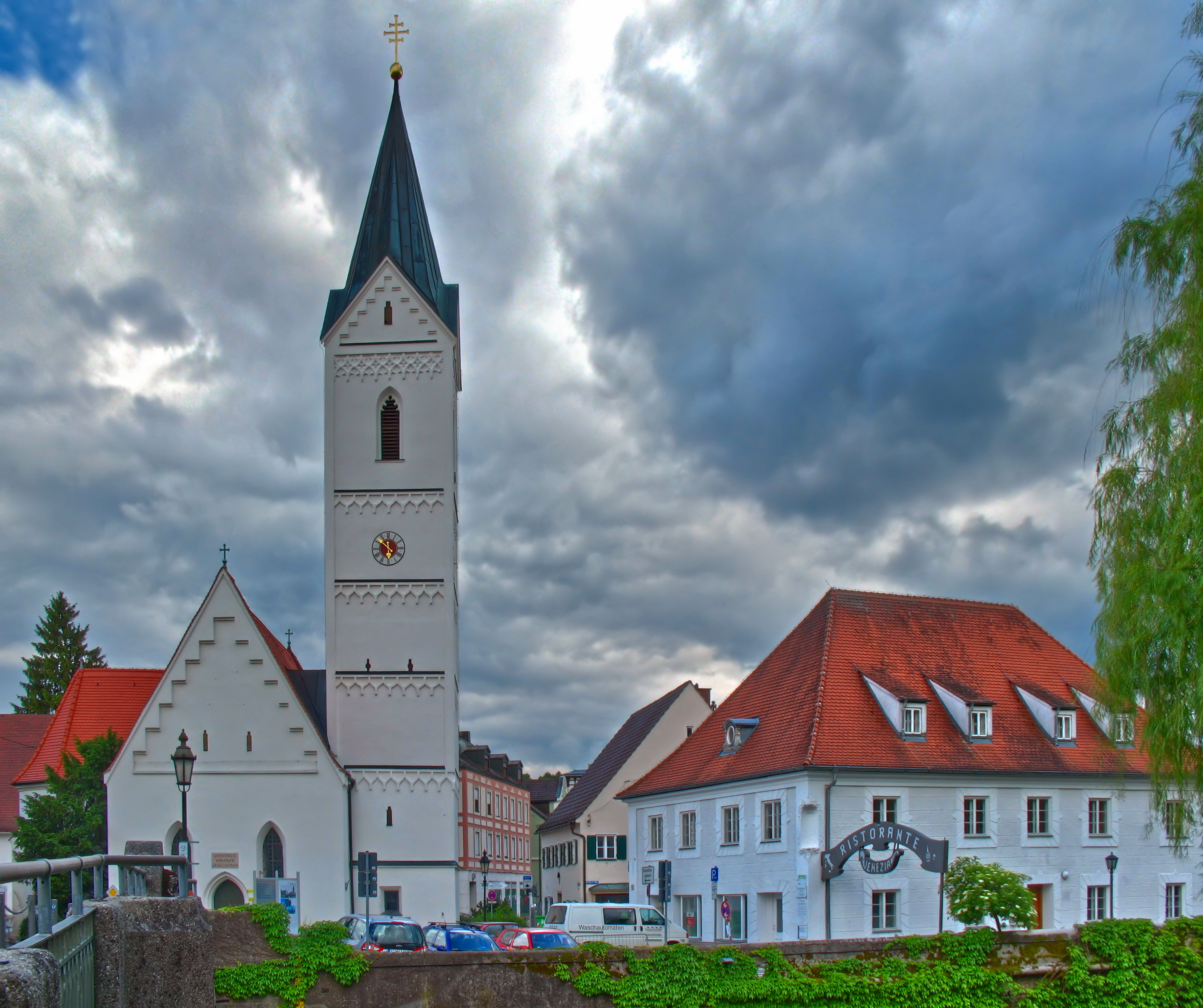 Germany, Bavaria, City Furstenfeldbruch, Church Saint Leonhard